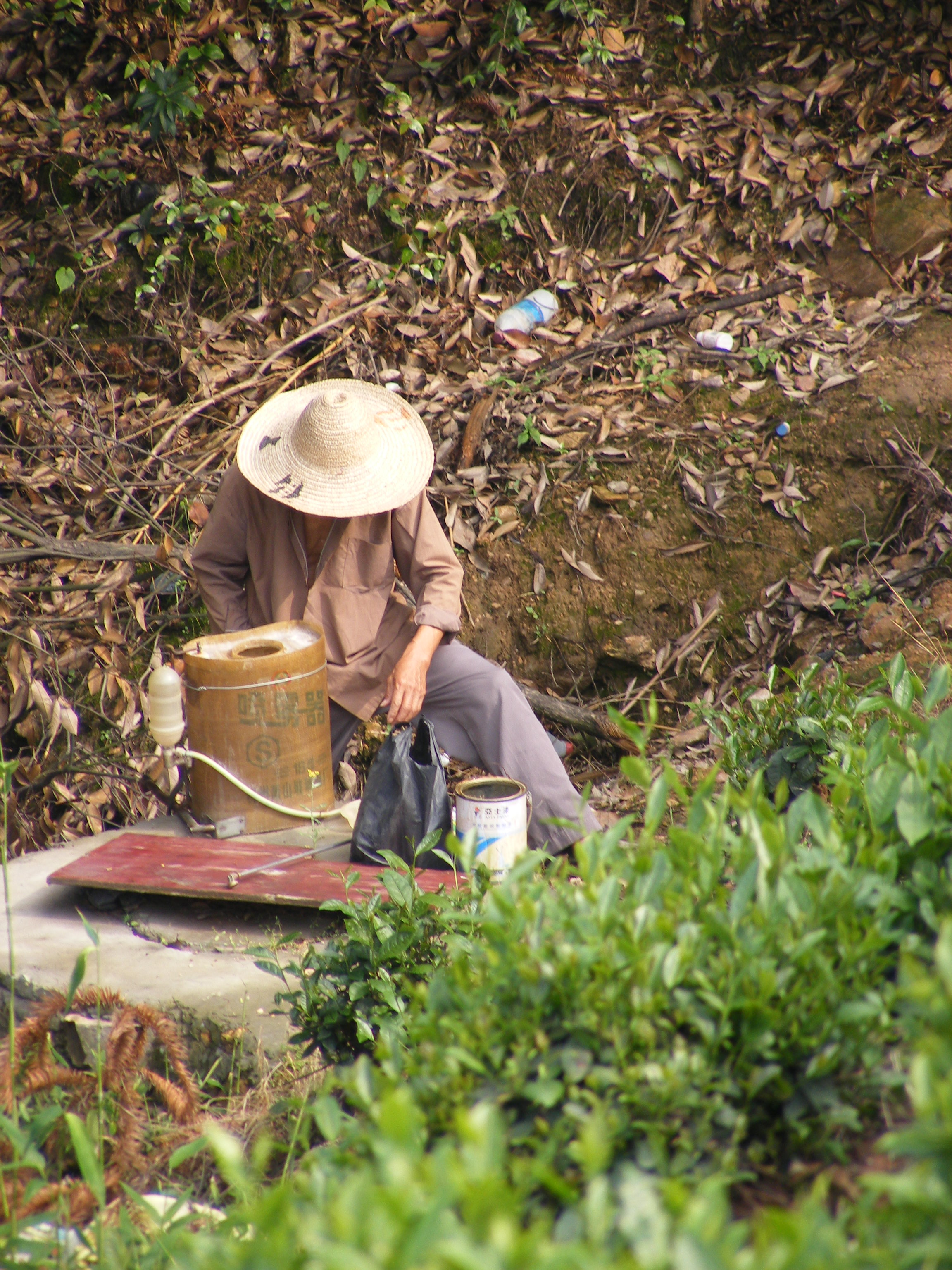 Rural tea grower in the hills around Hangzhou, China.